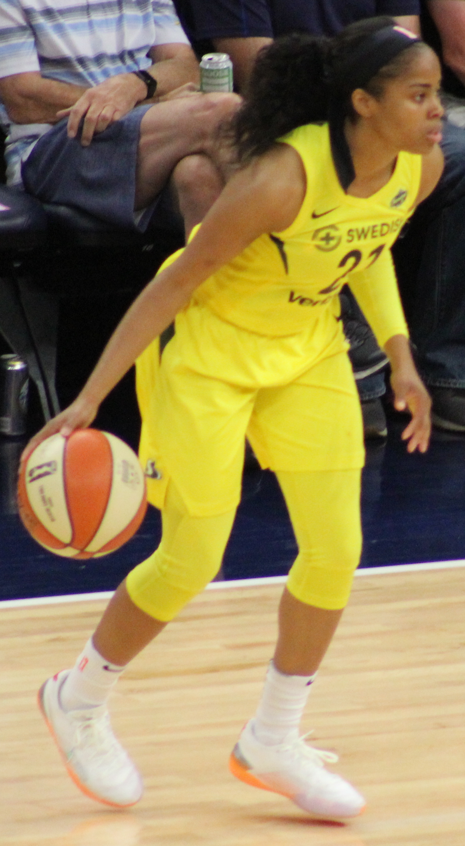 Jordin Canada of the Seattle Storm